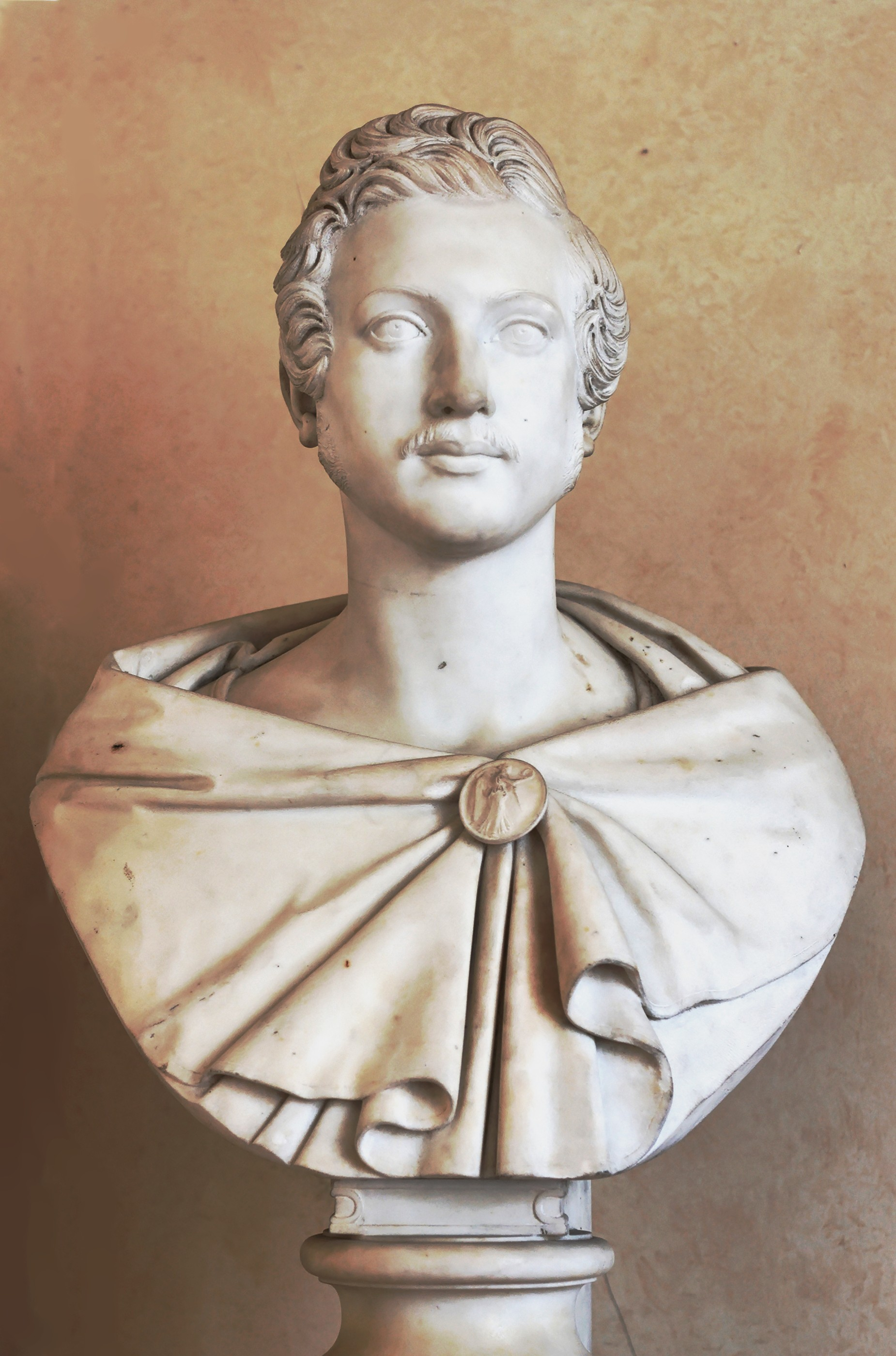 Portrait of Prince Albert of Saxe-Coburg and Gotha